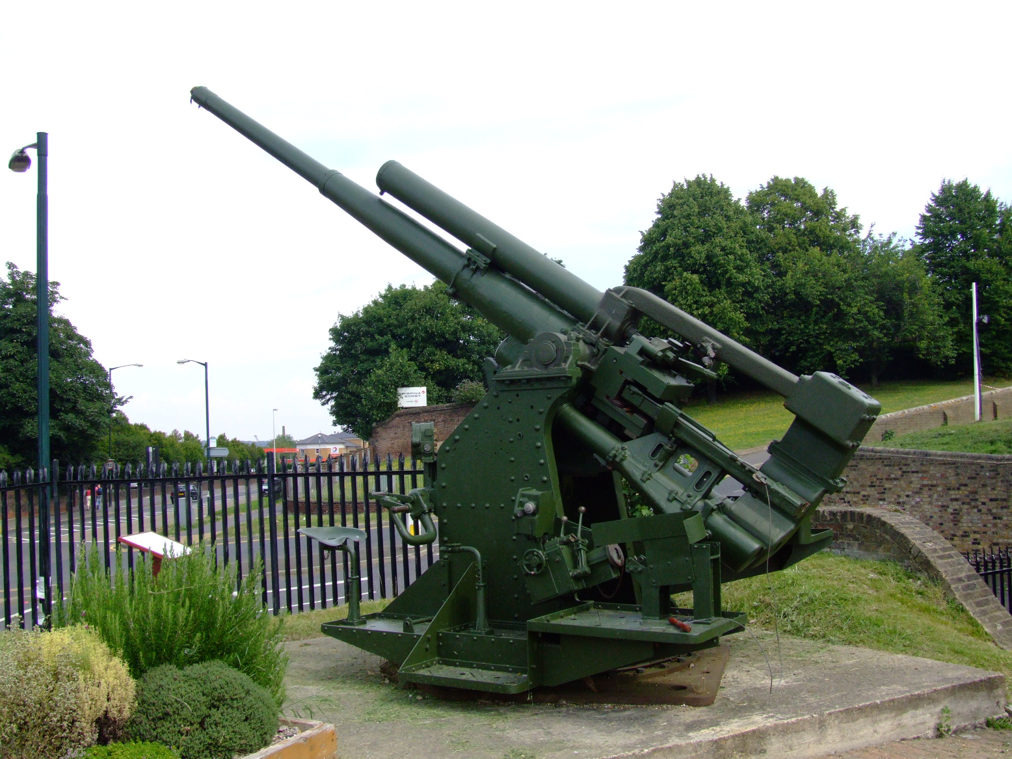 Fort Amherst defends Chatham Dockyard in Kent. It is the home of Medway Historical Ordnance. 3.7 inch Heavy Anti-aircraft gun. This one was manufacture in 1943 by Vickers, after WW2 it was sold in a batch to Portugal for use in Angola where it saw service. It was sold back to a British arms dealer and restores at Fort Amherst. It required a crew of 8 man, and fired a 28lb shell to 32000ft in 50 secs.